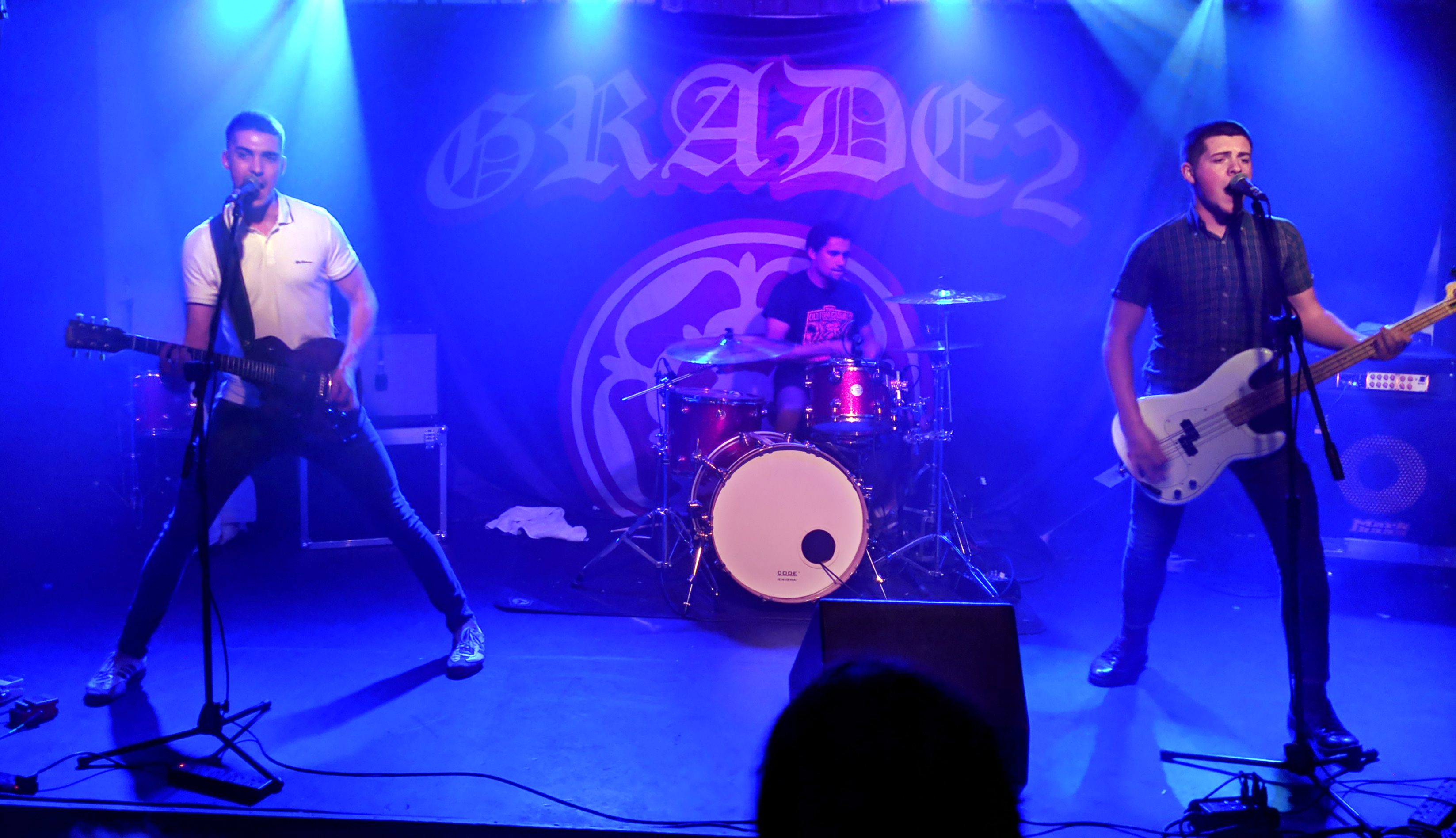 The punk band Grade 2, playing live at Strings in Newport, Isle of Wight, 2 March 2019. They mostly work in Europe and America but once a year they play a gig in their home, to a small but appreciative audience of fans, friends and family.